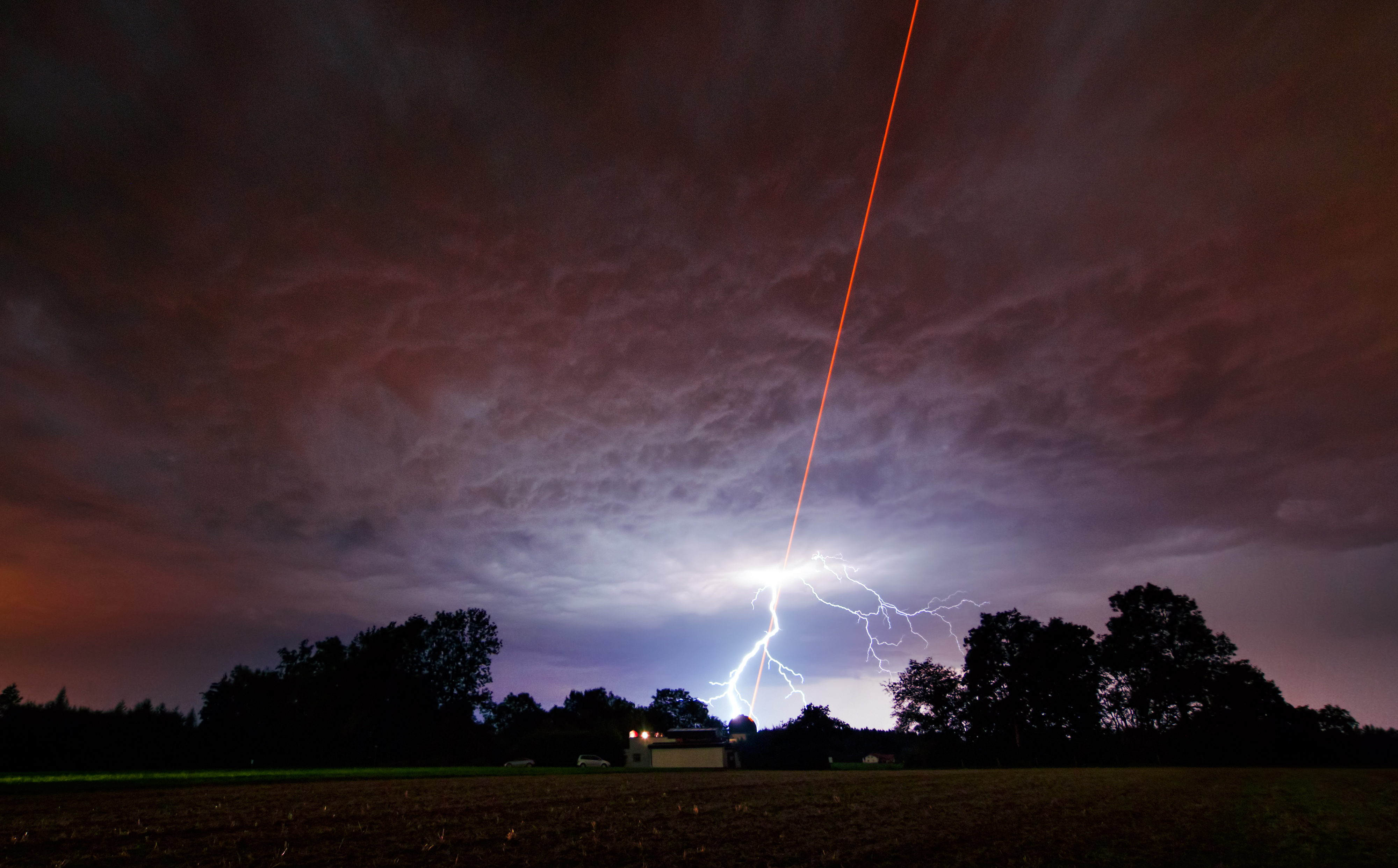 On Thursday 18 August, the sky above the Allgäu Public Observatory in southwestern Bavaria was an amazing sight, with the night lit up by two very different phenomena: one an example of advanced technology, and the other of nature’s dramatic power. As ESO tested the new Wendelstein laser guide star unit by shooting a powerful laser beam into the atmosphere, one of the region’s intense summer thunderstorms was approaching — a very visual demonstration of why ESO’s telescopes are in Chile, and not in Germany. Heavy grey clouds threw down bolts of lightning as Martin Kornmesser, visual artist for the ESO outreach department, took timelapse photographs of the test for ESOcast 34. With purely coincidental timing this photograph was snapped just as lightning flashed, resulting in a breathtaking image that looks like a scene from a science fiction movie. Although the storm was still far from the observatory, the lightning appears to clash with the laser beam in the sky. Laser guide stars are artificial stars created 90 kilometres up in the Earth’s atmosphere using a laser beam. Measurements of this artificial star can be used to correct for the blurring effect of the atmosphere in astronomical observations — a technique known as adaptive optics. The Wendelstein laser guide star unit is a new design, combining the laser with the small telescope used to launch it in a single modular unit, which can then be placed onto larger telescopes. The laser in this photograph is a powerful one, with a 20-watt beam, but the power in a bolt of lightning peaks at a trillion (one million million) watts, albeit for just a fraction of a second! Shortly after this picture was taken the storm reached the observatory, forcing operations to close for the night. While we may have the ability to harness advanced technology for devices such as laser guide stars, we are still subject to the forces of nature, not least among them the weather!